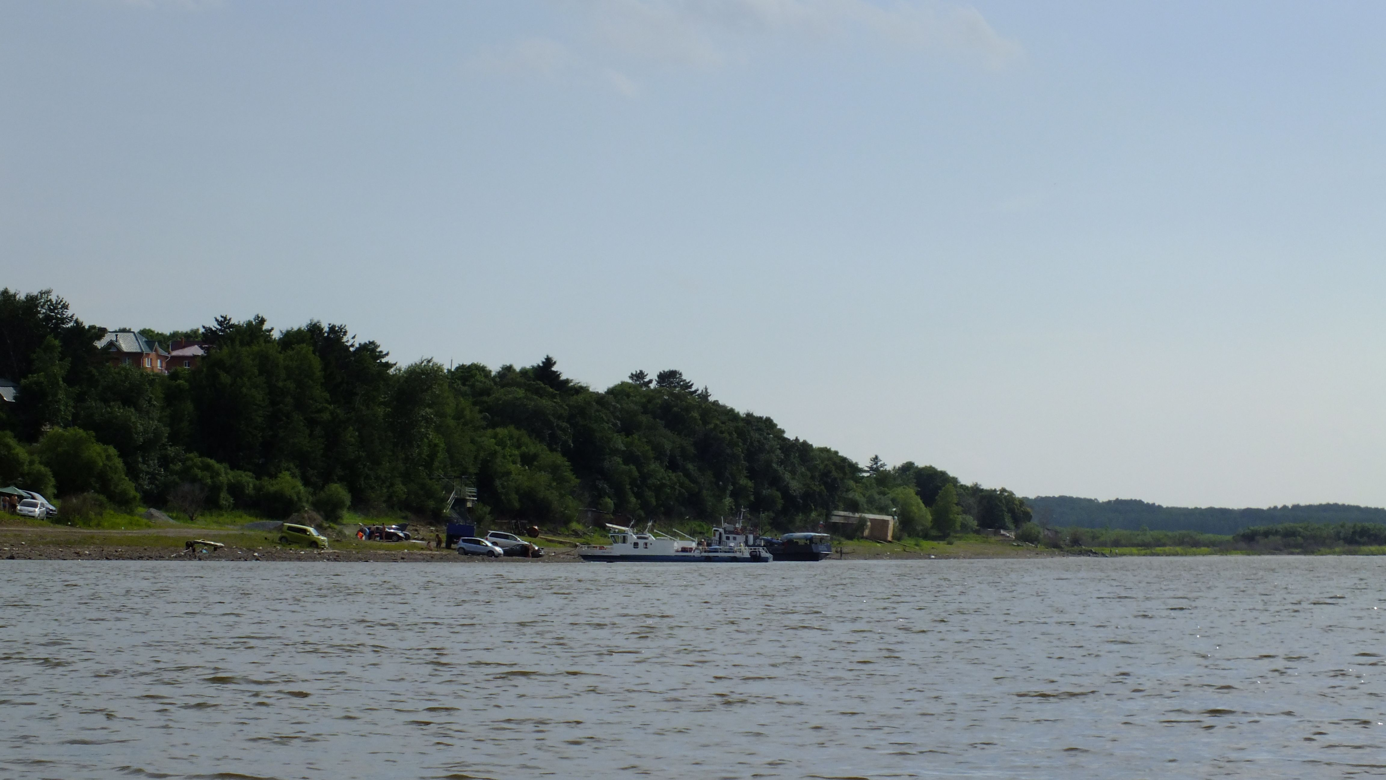 Khabarovsk Krai